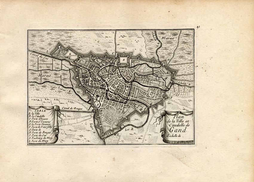 'Plan de la ville et citadelle de Gand' Map of Ghent by Sébastien de Beaulieu